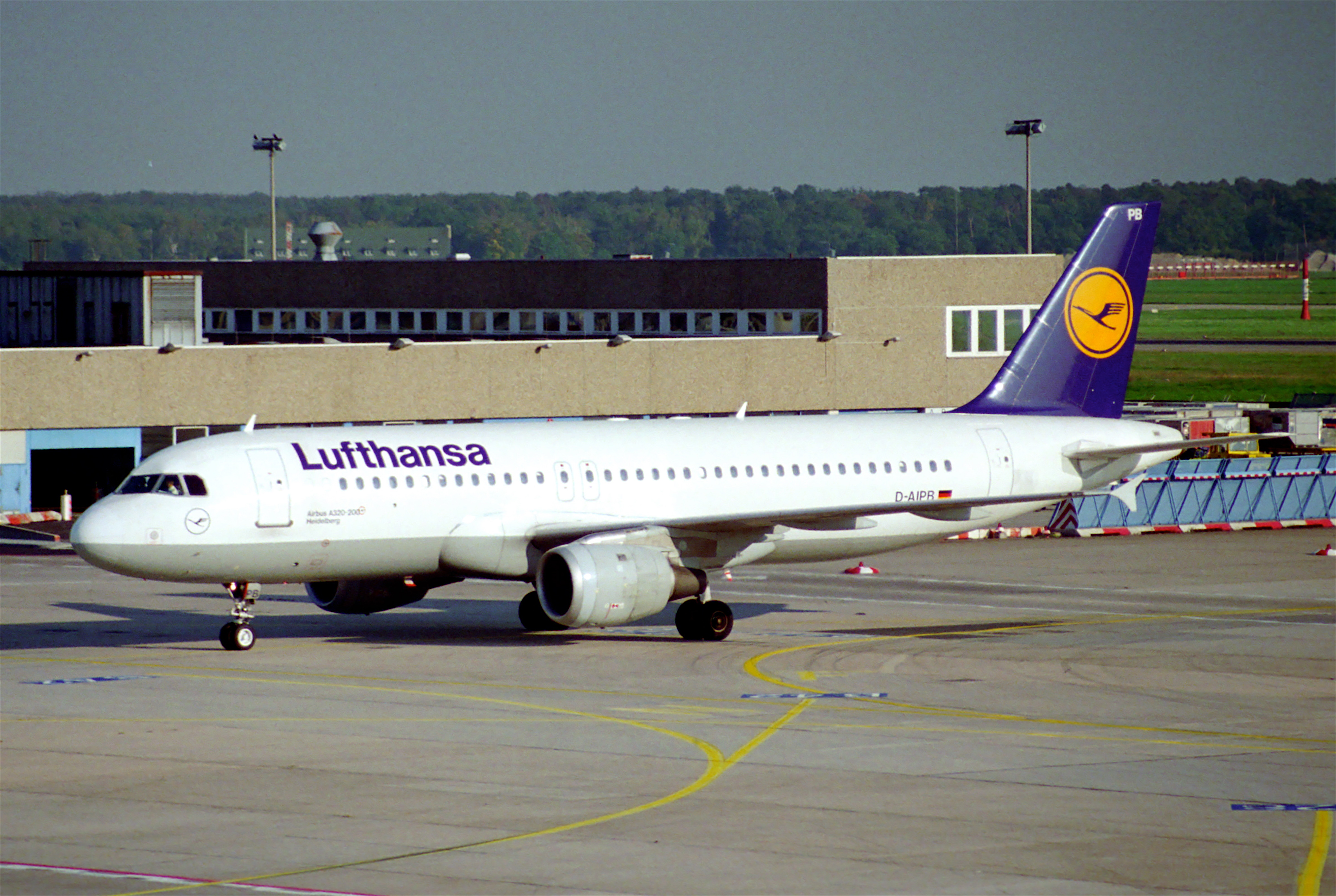 This A320 named 'Heidelberg' took its first flight on August 11, 1989 and was delivered to LH on October 20, 1989...(c/n 70)